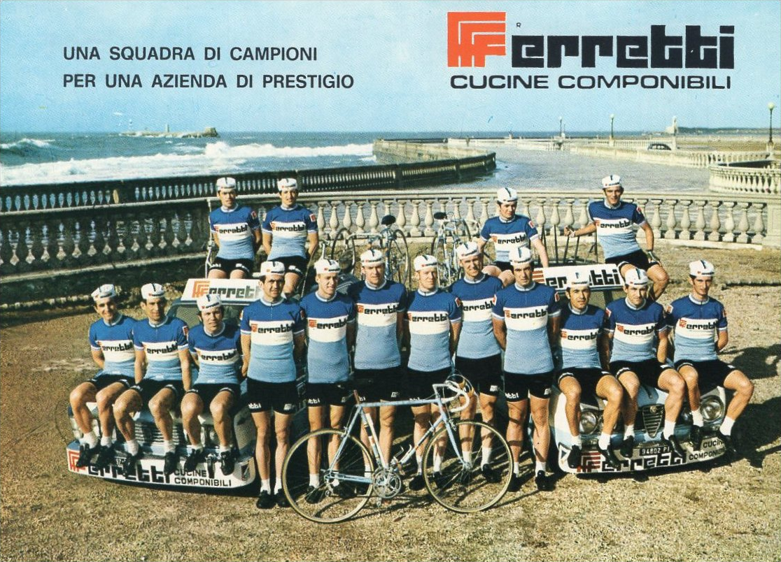 Ferretti cycling team 1971 postcard